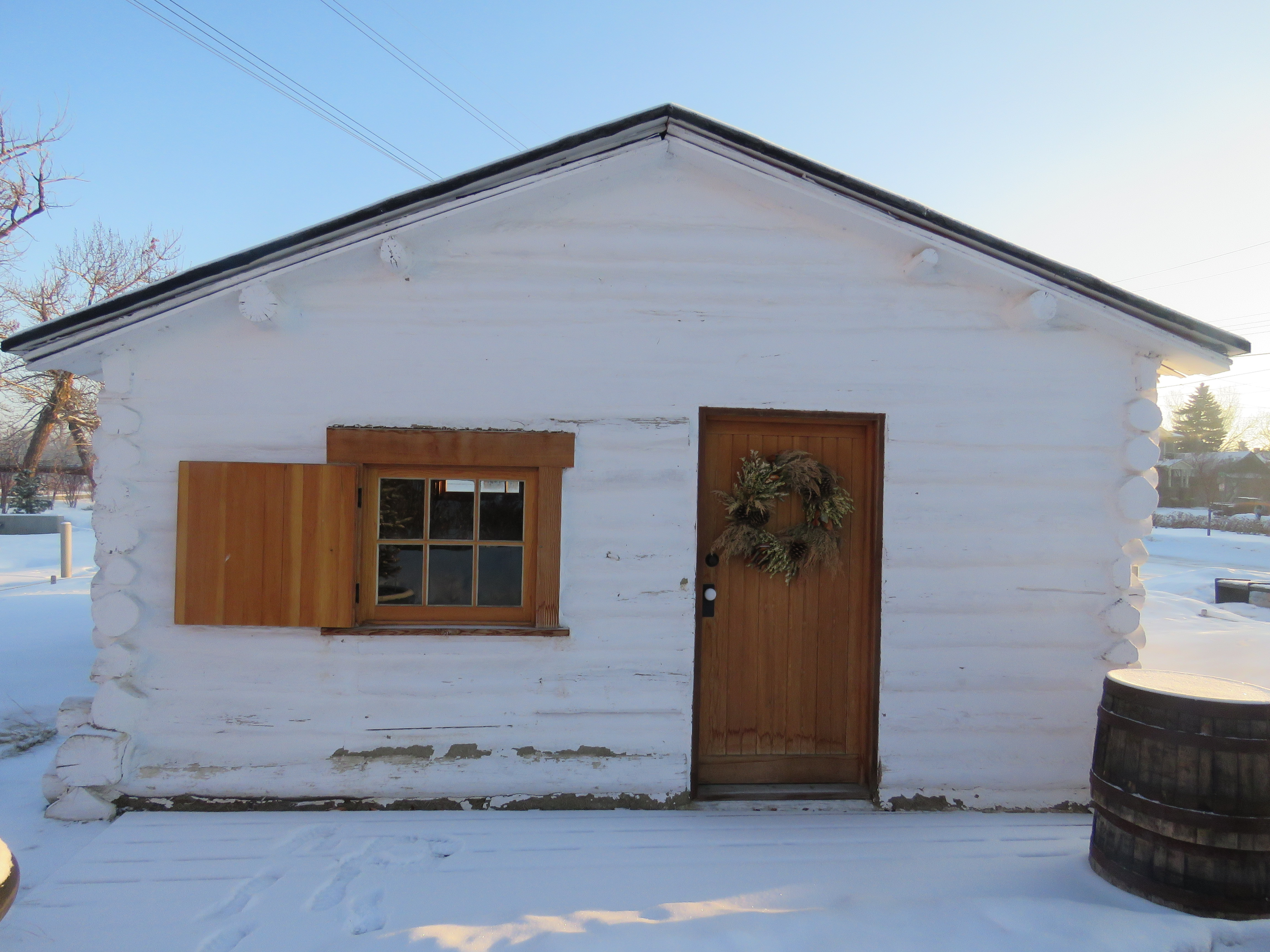 Hunt House (H.B.C. Log Cabin) 806 - 9 Avenue SE, Calgary. This building has been substantially restored by the property owners of Cross House Restaurant.